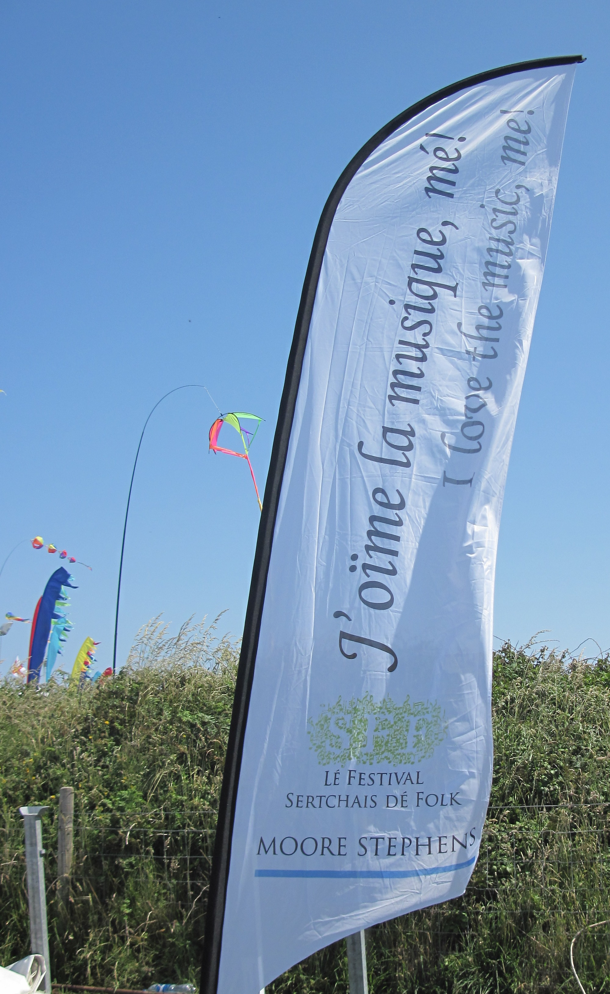 Sark Folk Festival 2013 Nrf: J'oïme la musique, mé